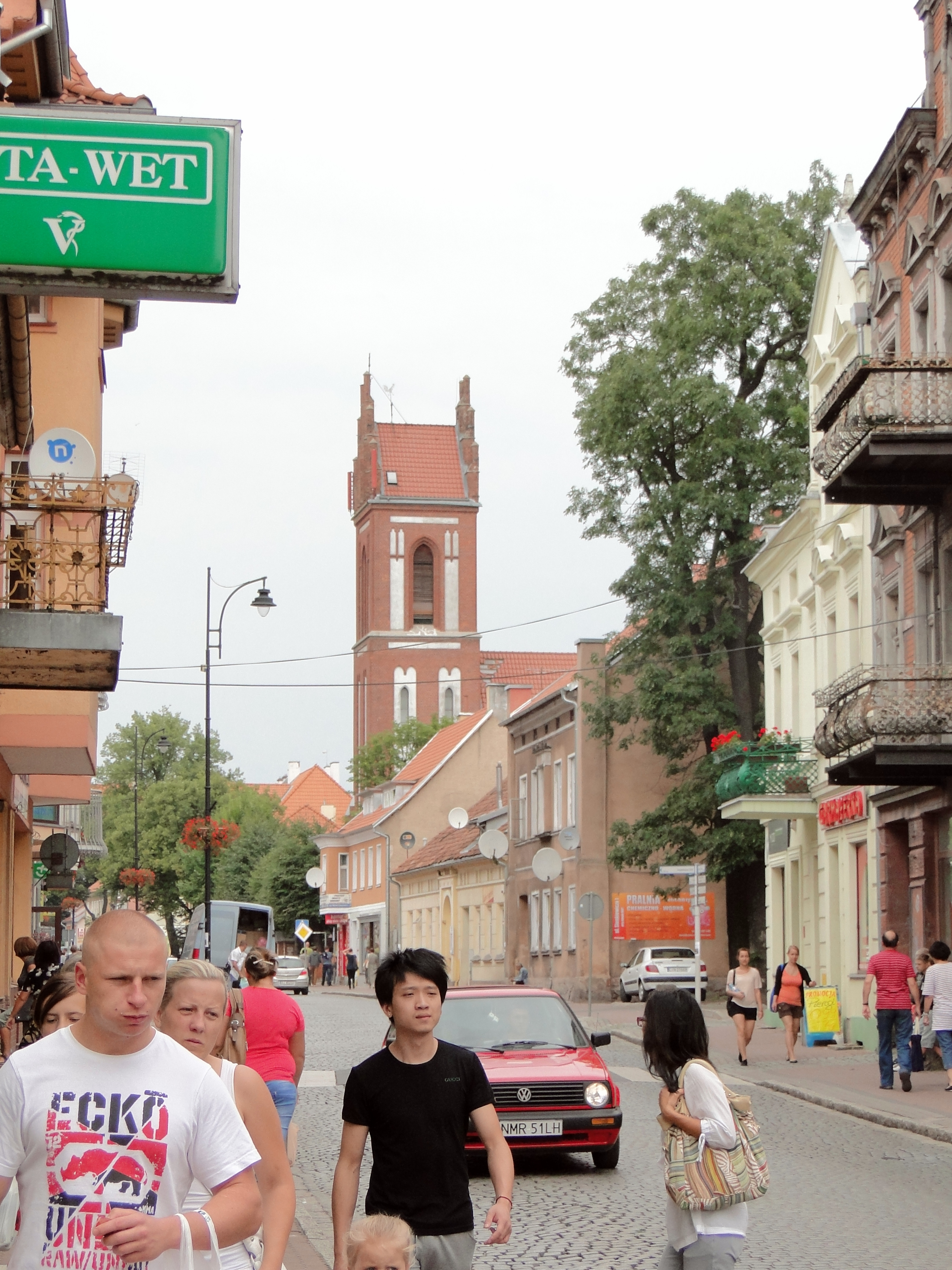 Królewiecka Street in centre of Mrągowo. In background